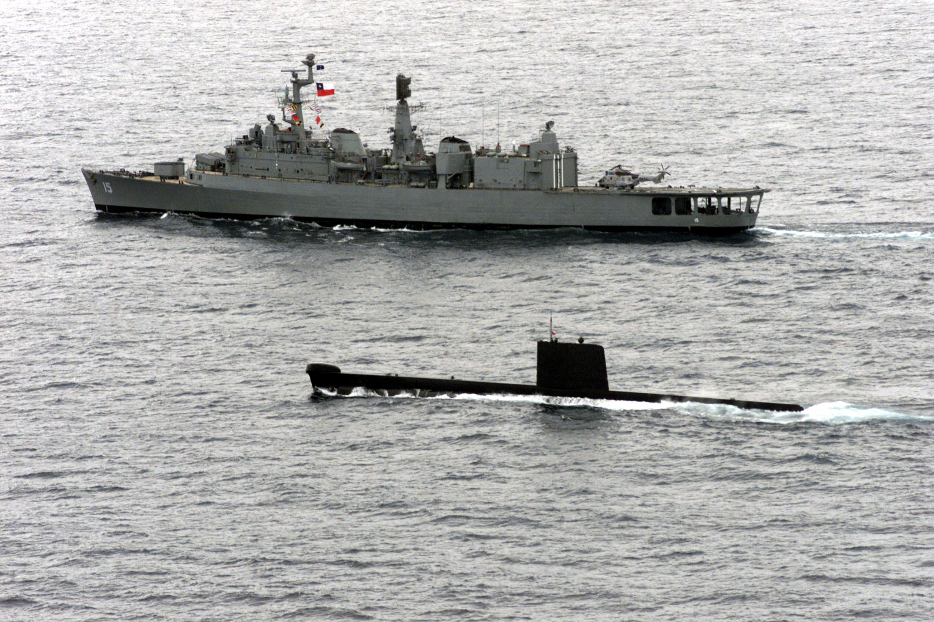 The Chilean flagship Blanco Encalada (DLH 15) (former HMS Fife (D20)) and the submarine O'Brien (SS 22) steam off the coast of Chile during Exercise TEAMWORK SOUTH '99. O'Brien, a 1972 Oberon-class patrol submarine, was decommissioned on December 31, 2001 after serving for 25 years in the Chilean Navy. In 2008, was acquired by the Municipality of Valdivia and turned into a museum submarine. It is on display in the Museo Naval Submarino O'Brien at Yungay viewpoint, Costanera Avenue, Valdivia, Región de Los Ríos, Chile.